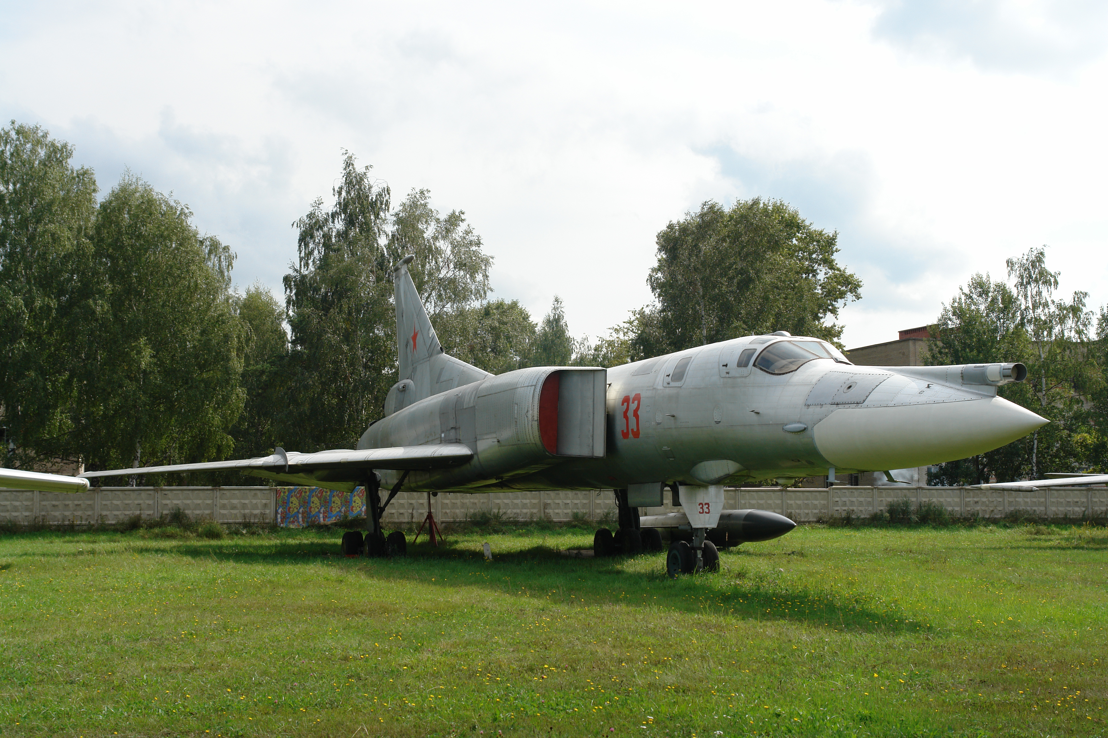 Tupolew TU-26 (Backfire) at Monino Central Air Force Museum (Moscow)